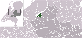 Locator map of Dutch municipalities in Gelderland (LocatieHarderwijk.png)